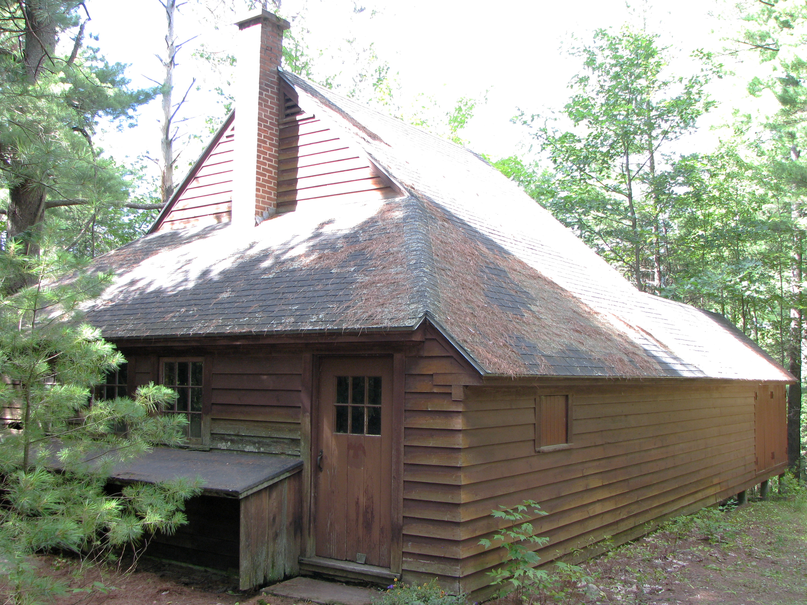 Rockwell Kent studio at Asgaard Farm, Ausable Forks, NY